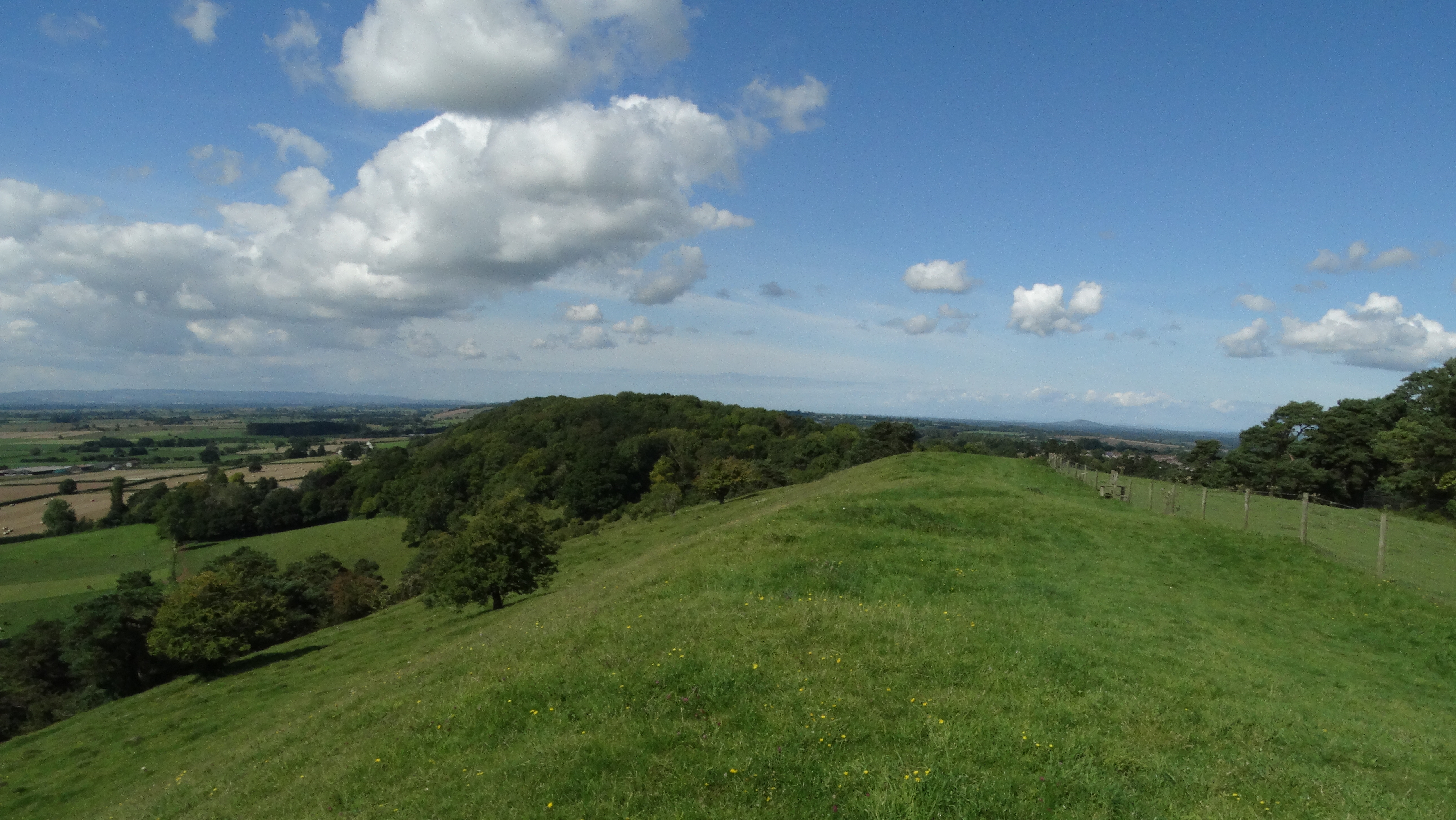 On the Polden Way over Collard Hill - view NW.